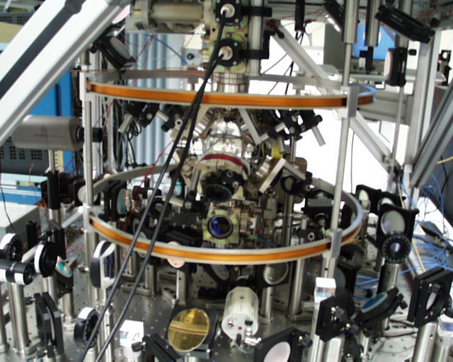 Cesium fountain atomic clock at USNO